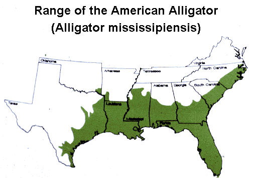 Map of the range of the American Alligator.